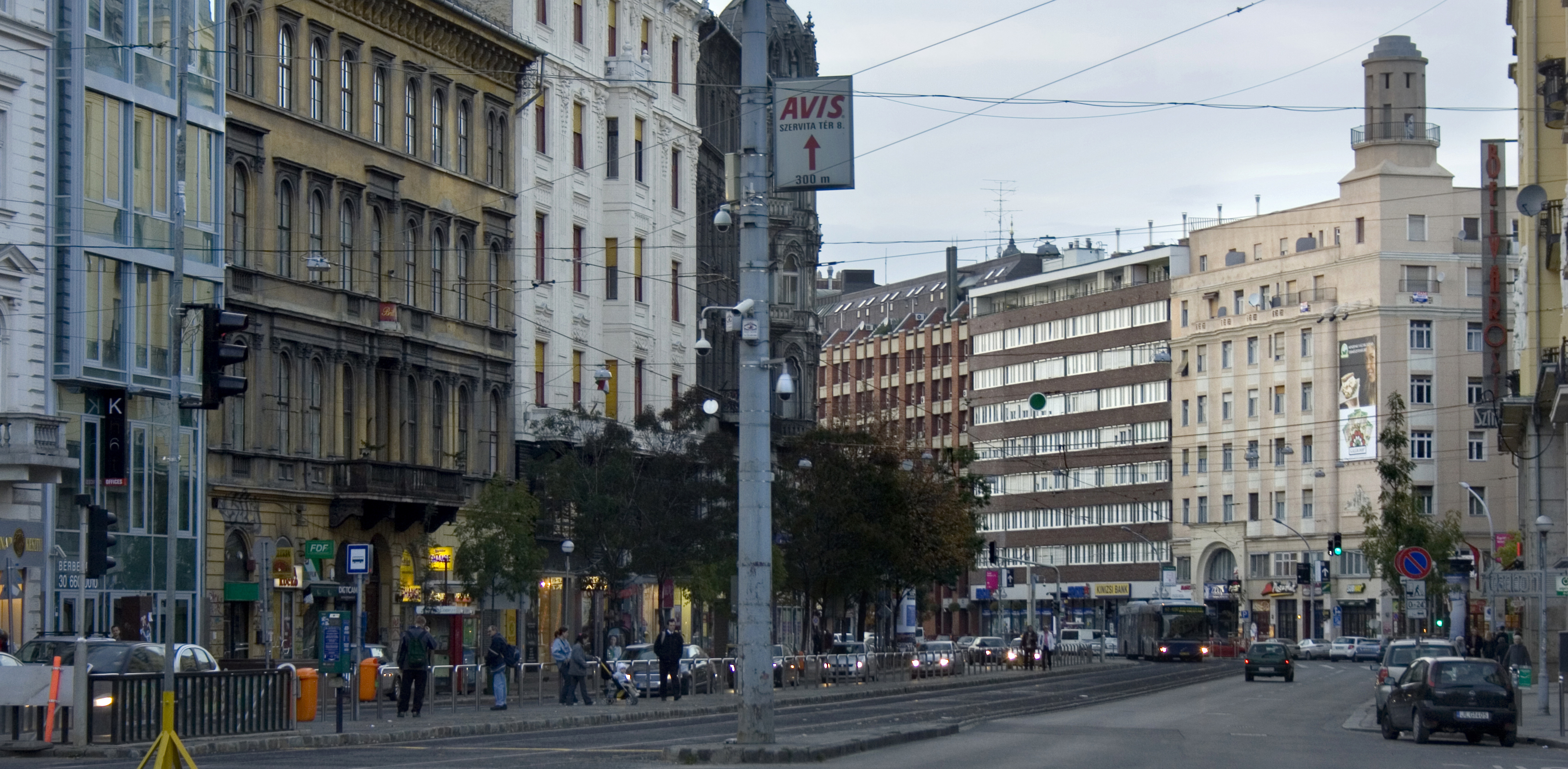 Károly boulevard from South (from Astoria junction) in Budapest, Hungary